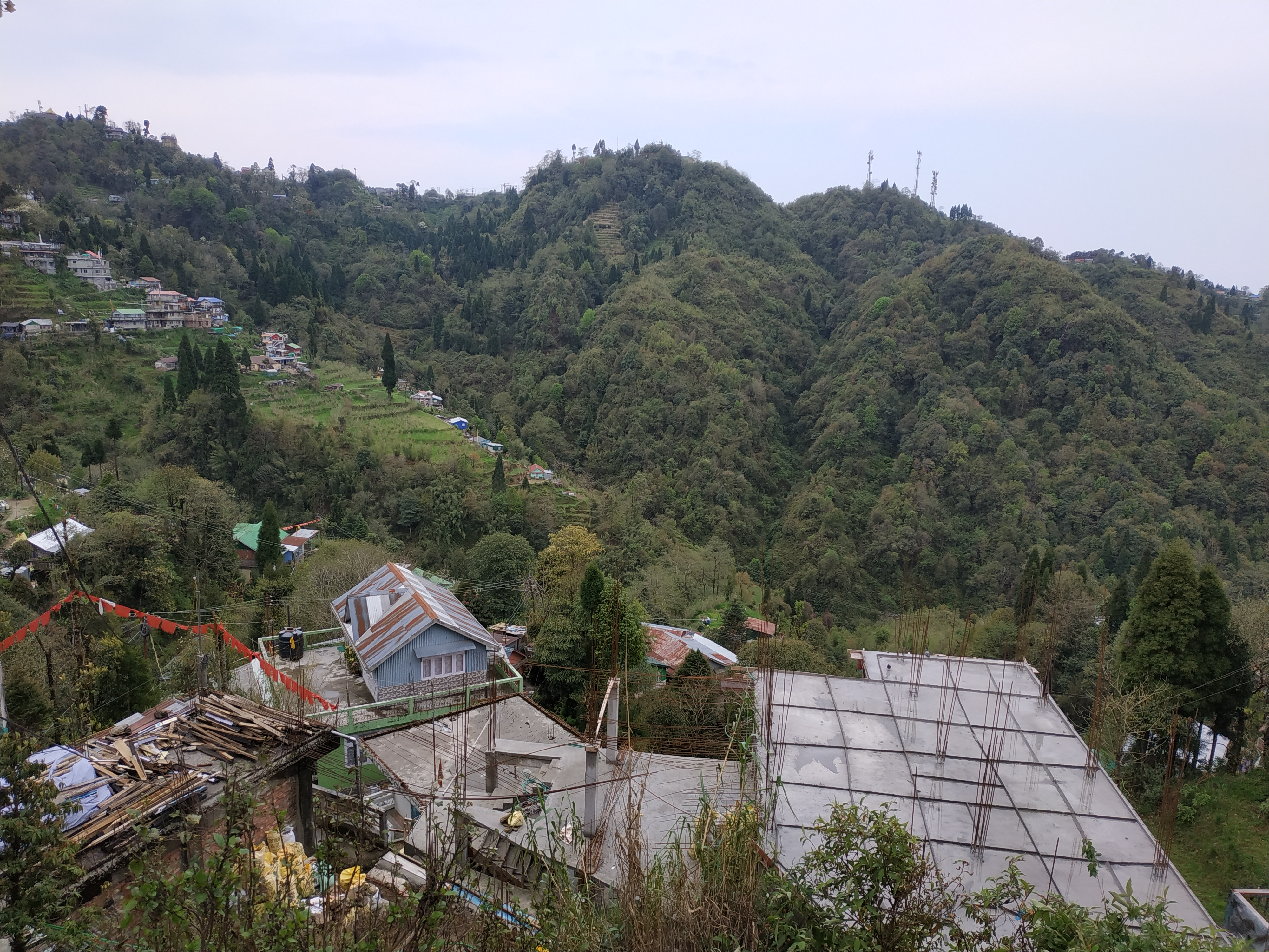 Beautiful View from Tiger Hill, Kanchenjunga Himalayan mountain range.